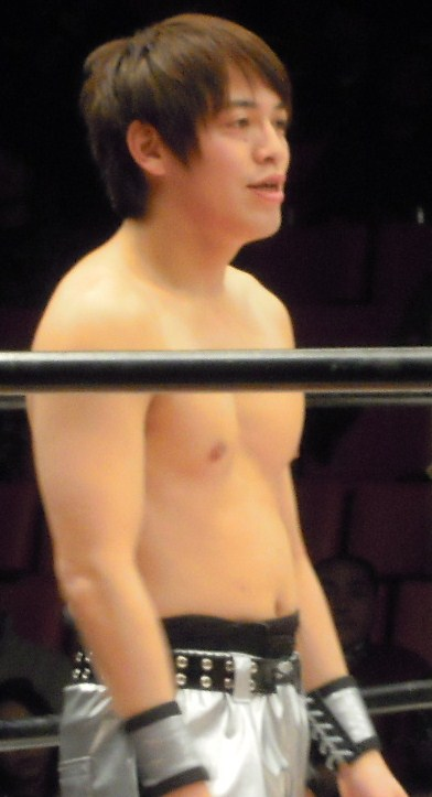 Japanese professional wrestler,Shiori Asahi. Jan 2 2011, BJW Korakuen Hall.